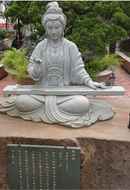 The statue of Cai Wenji in chifa-mazu temple.